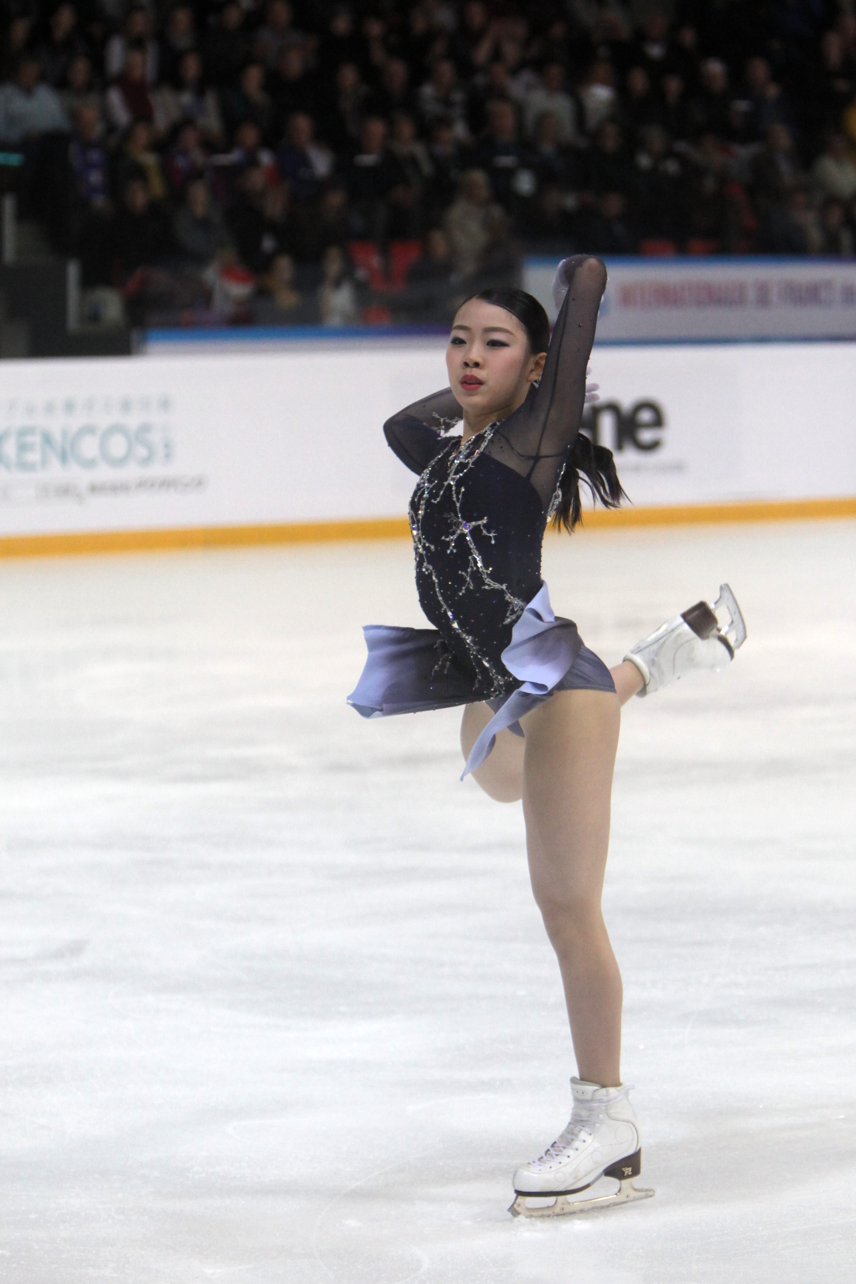 Rika Kihira during the Ladies Free Skating at the Internationaux de France de Patinage 2018.